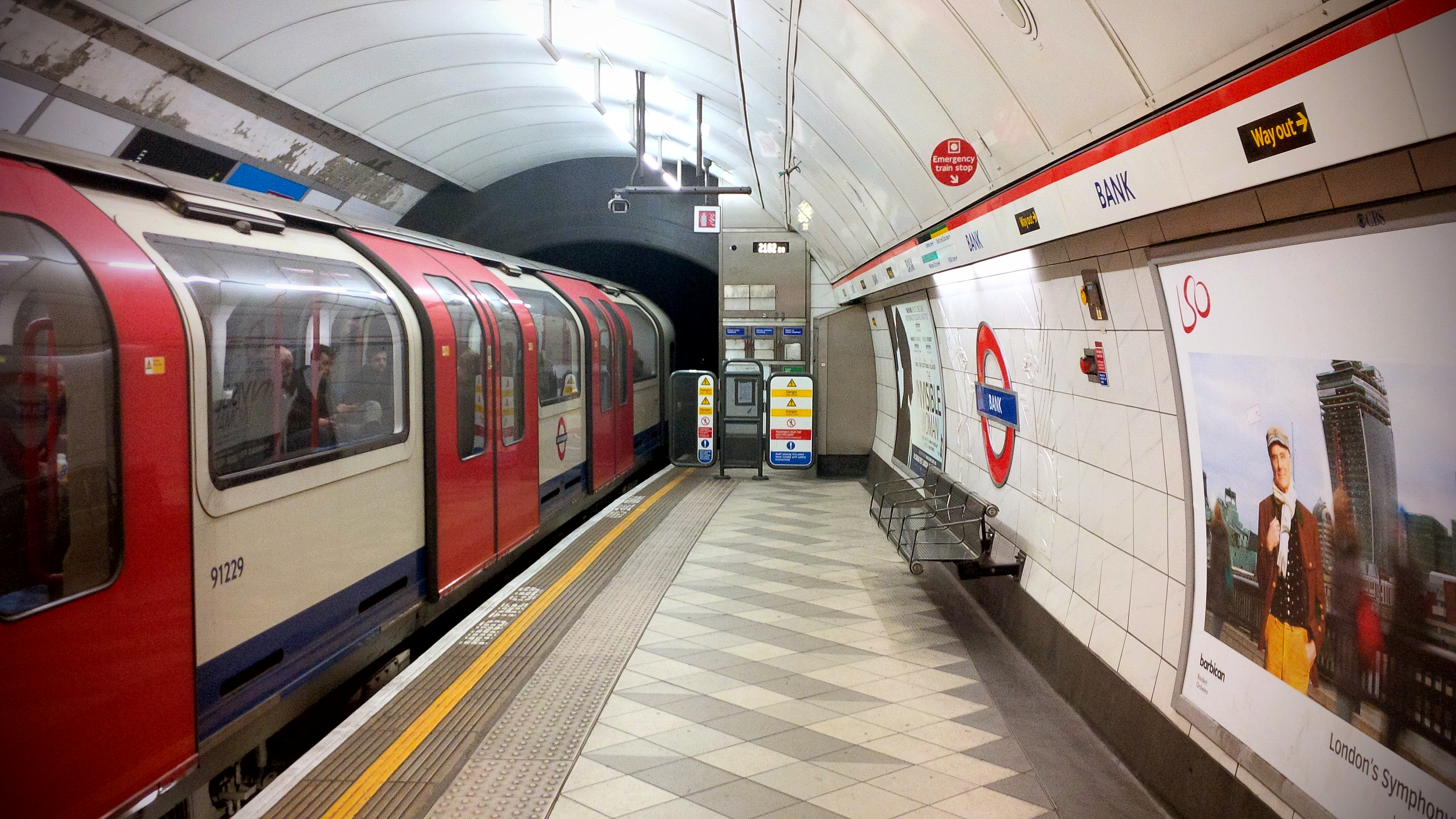 Bank Tube Station, westbound platform (Central line train entering underground tunnel).